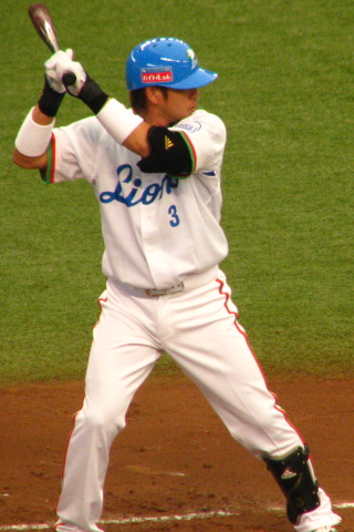 Hiroyuki Nakajima, infielder of the Saitama Seibu Lions, at Seibu Dome.